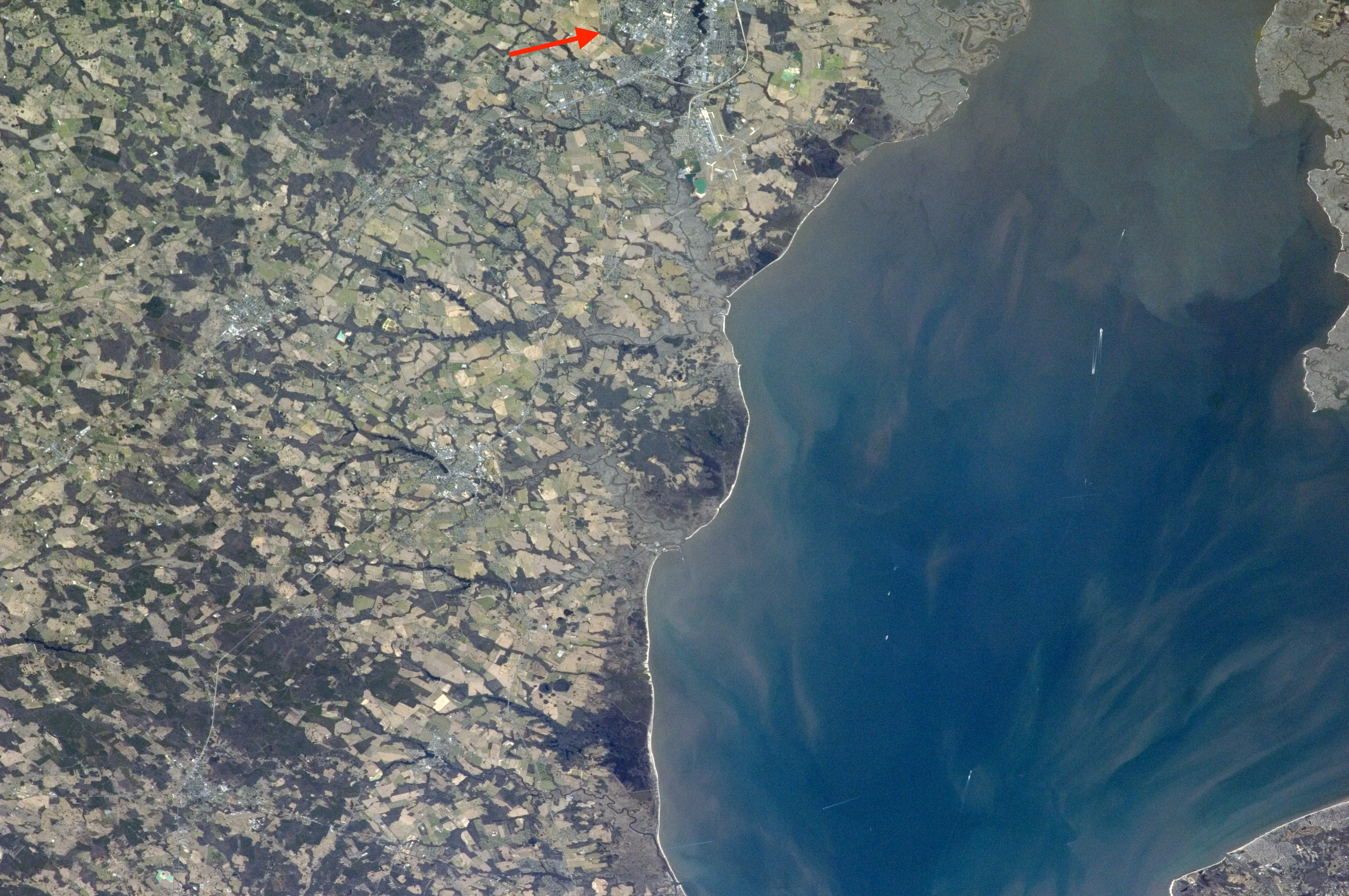 Taken from the ISS, this satellite image shows southern Delaware in 2010. The red arrow points to Dover, DE.